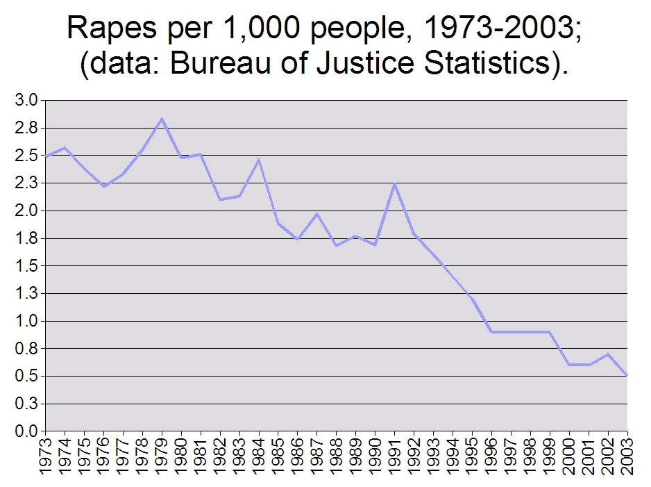 This is a chart showing trends rape rates (per 1000 people) in the U.S. from 1973-2003.